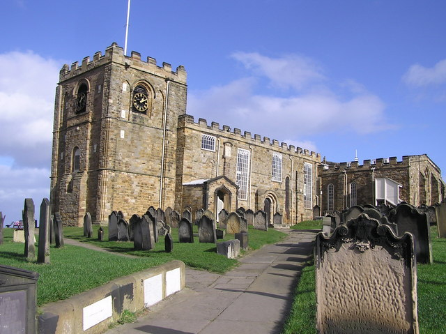 St. Mary's Church. Founded by St.Hilda in 657AD,the present stone church was started in 1110, and has been much altered and enlarged with many interesting features, and well worth climbing the 199 steps to visit.